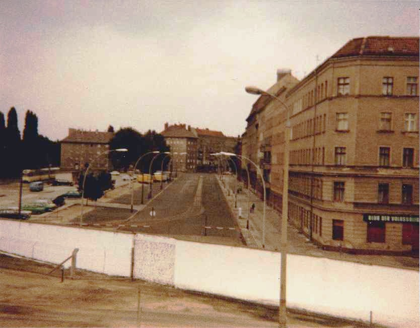 Eberswalder Straße, in East Berlin, as seen from the observation platform at the end of Bernauer Straße, 1980.